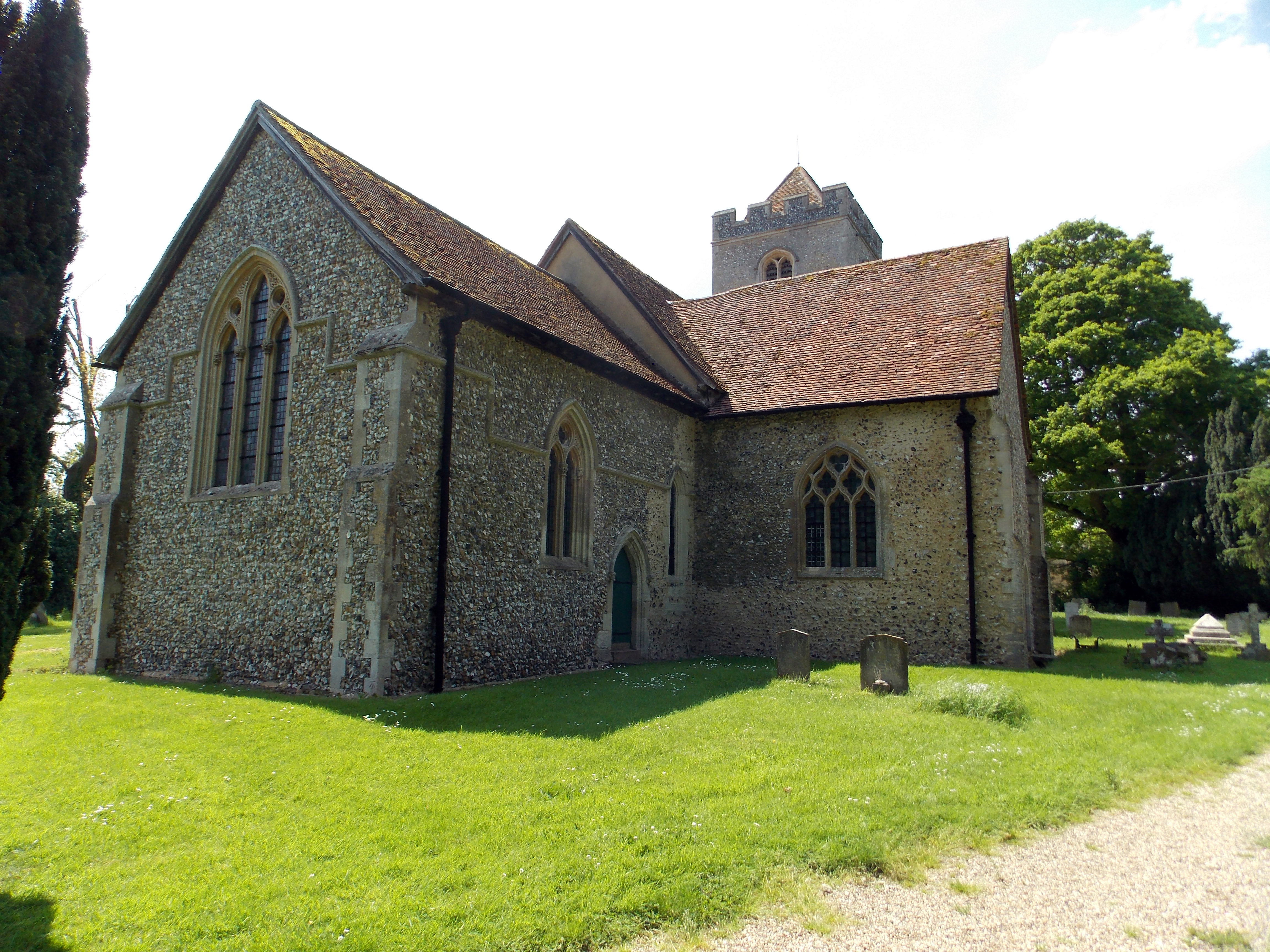 St Nicholas' parish church, Berden, Essex: view from the northeast, showing the chancel and north transept